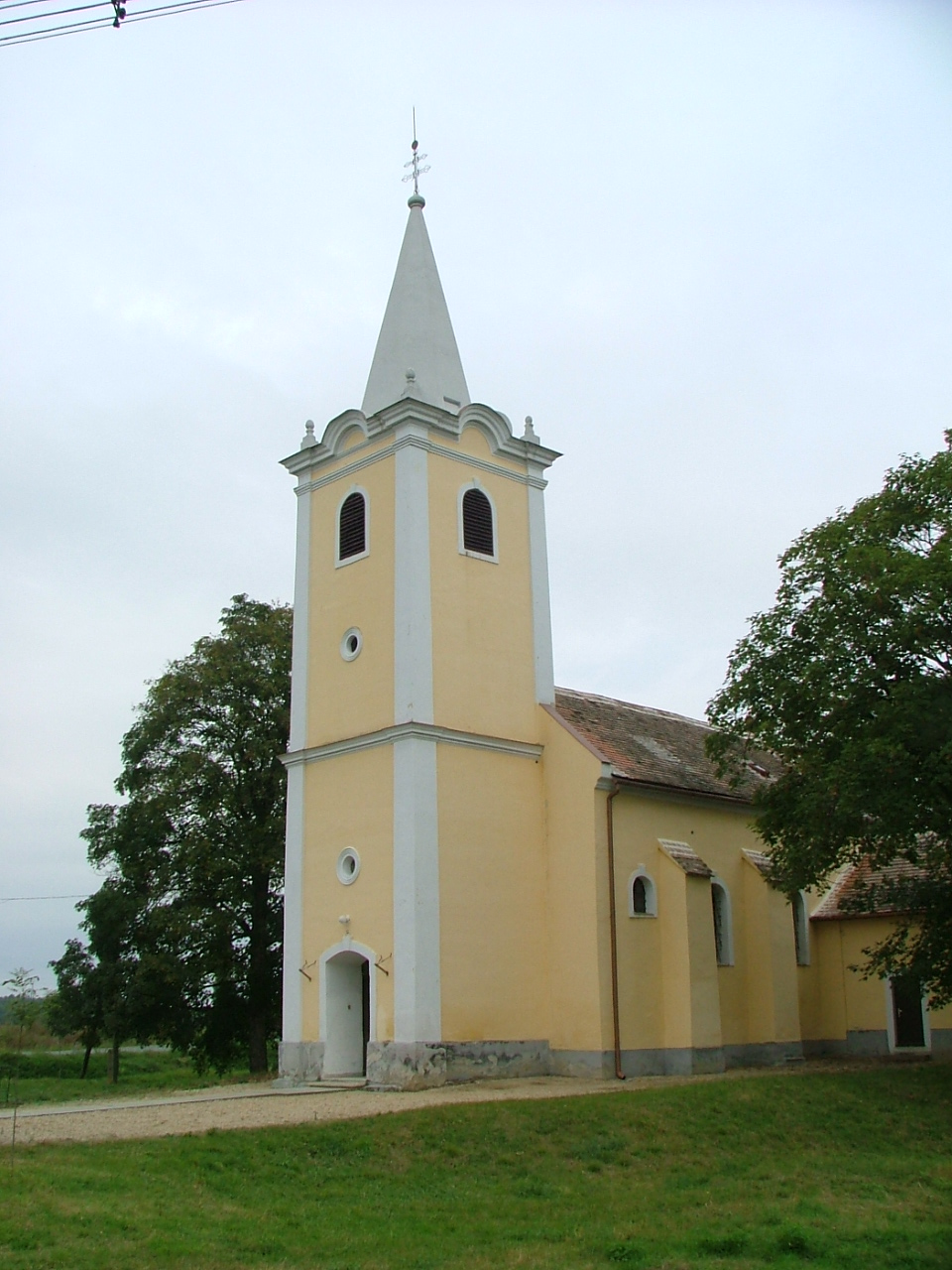 Ebergőc; Saint Emeric church This is a photo of a monument in Hungary, Identifier: 4029